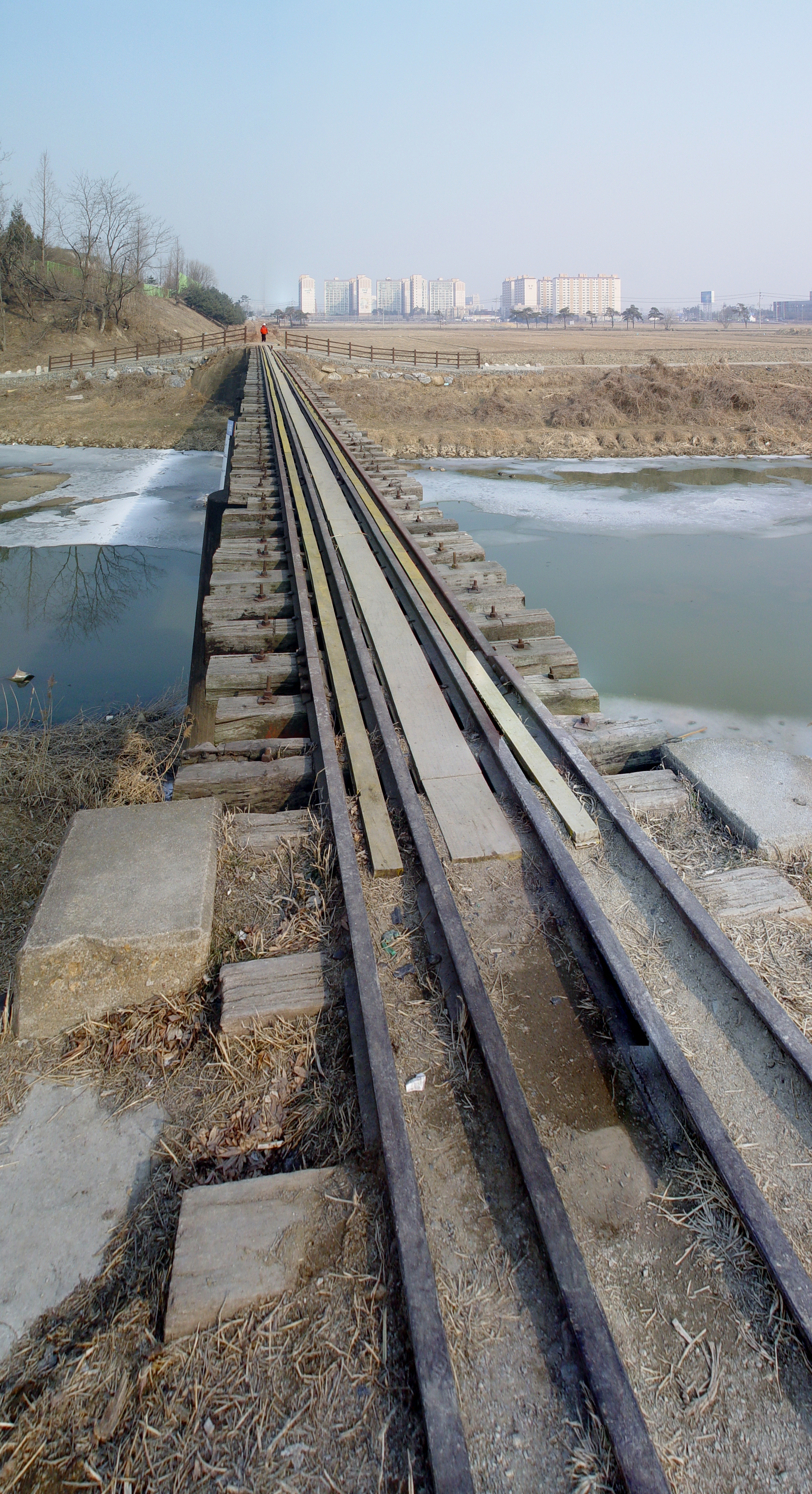 The Suin Line crossing the Hwanggujicheon, Suwon